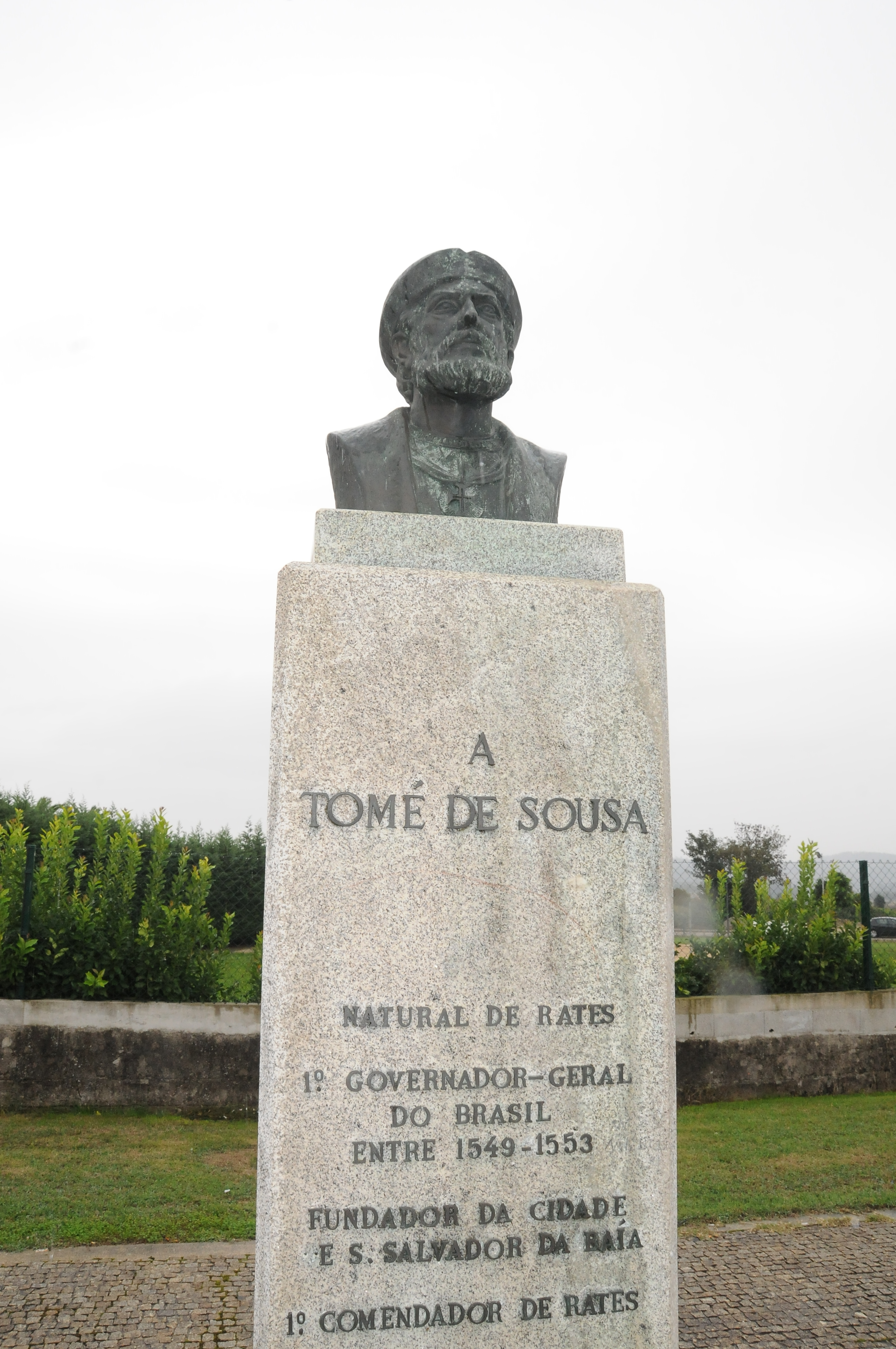 Tomé de Sousa Bust in São Pedro de Rates in Rates, Póvoa de Varzim, Portugal.